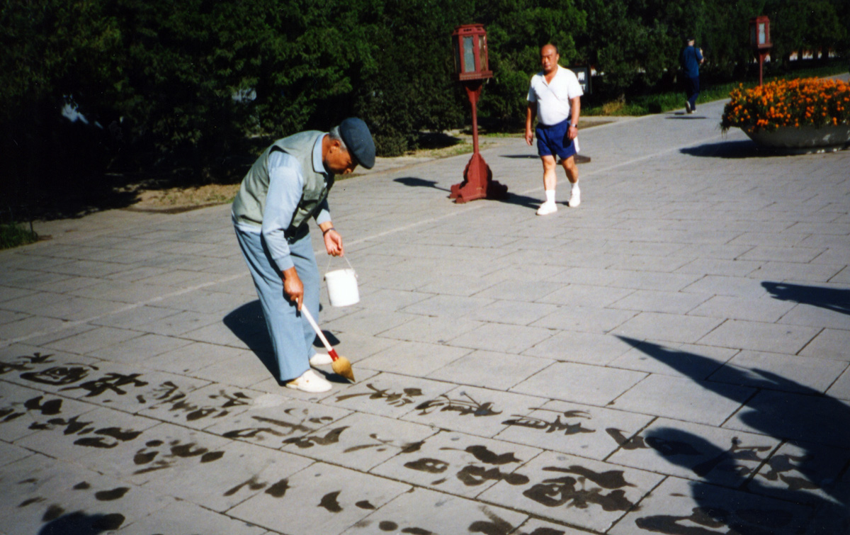 Touring the Temple of Heaven complex southeast of the Forbidden City. Seen on a main walkway: an elderly man practicing calligraphy with water. This works out quite well, as paper turned out to be quite expensive in China, ironically the inventing place of paper.